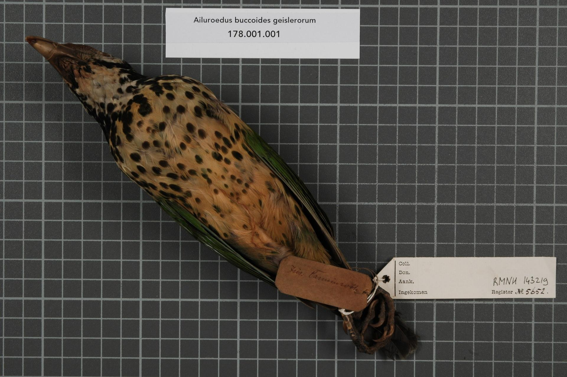 Ailuroedus buccoides geislerorum A.B. Meyer, 1891